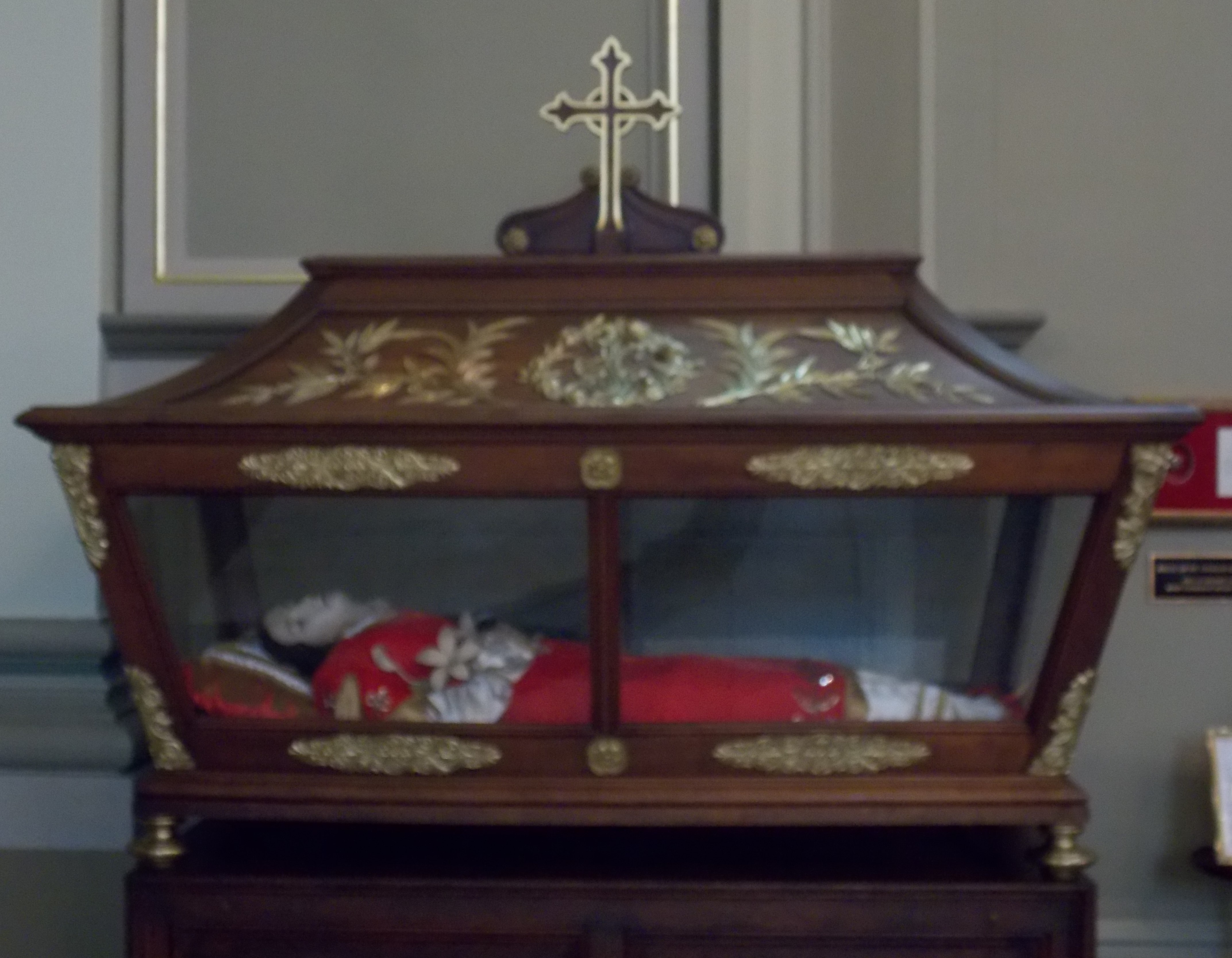 The relic of St. Valeria of Milan in St. Joseph Co-Cathedral in Thibodaux, Louisiana. The church is listed on the National Register of Historic Places.